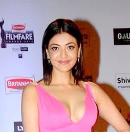 Kajal Aggarwal at Filmfare Awards snapped on January 15th 2016.